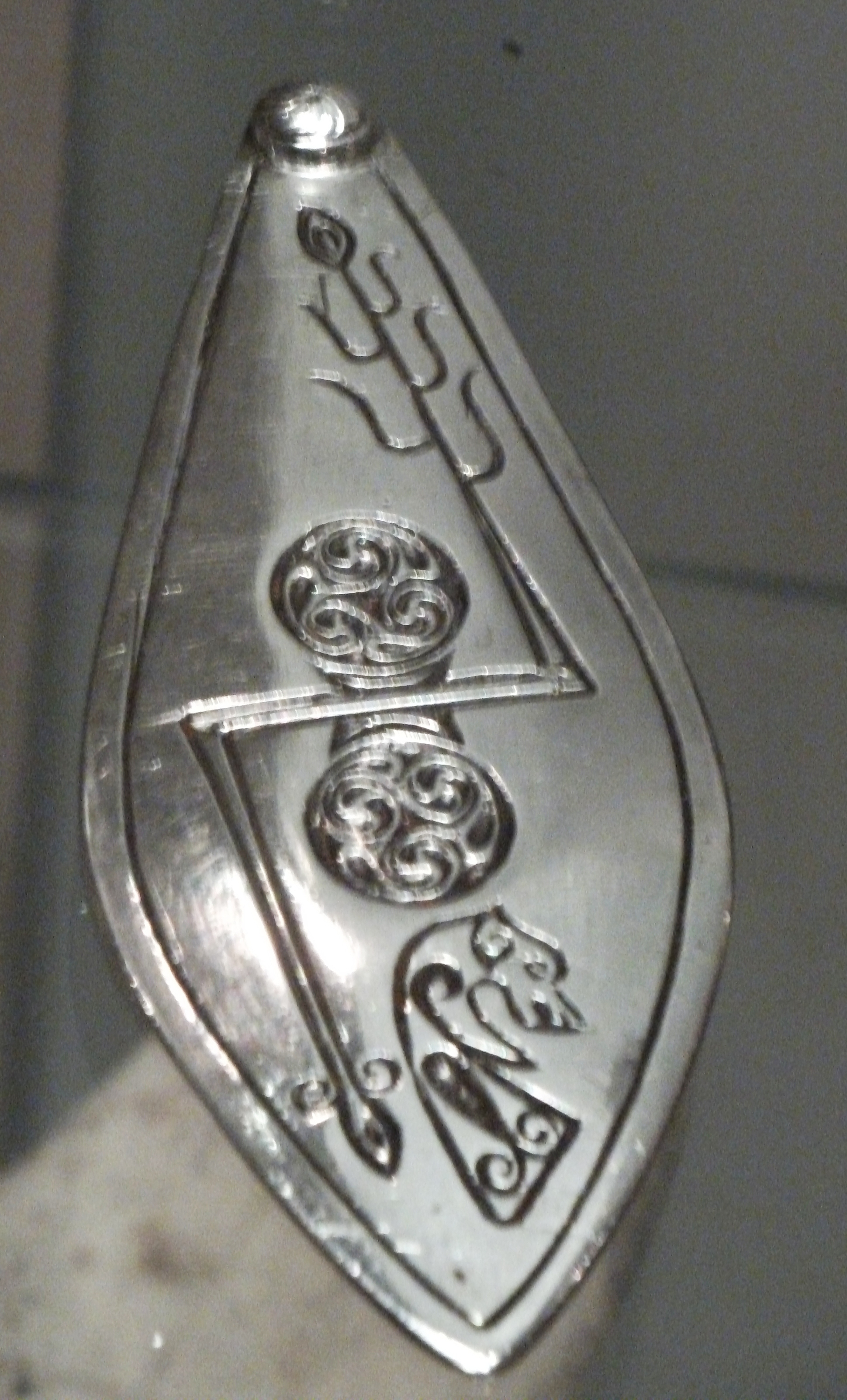 Norrie's Law